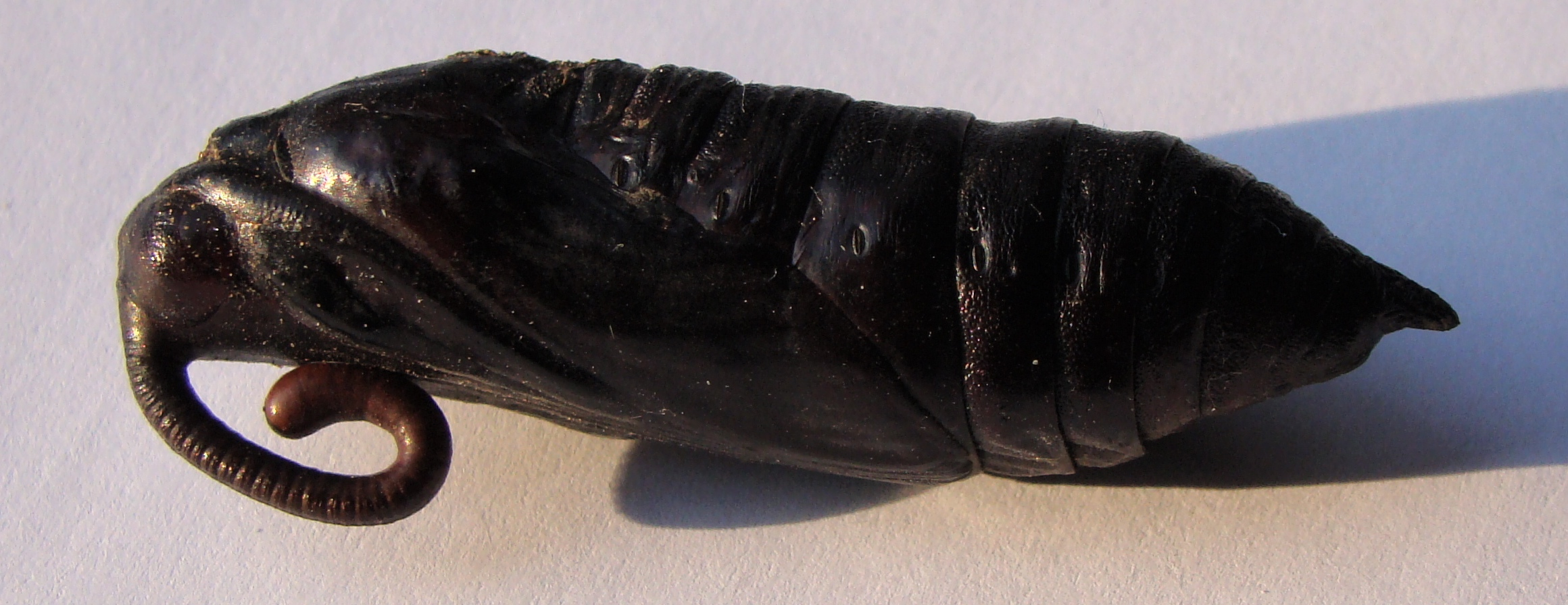 Pupa of Convolvulus Hawk-moth (Agrius convolvuli).